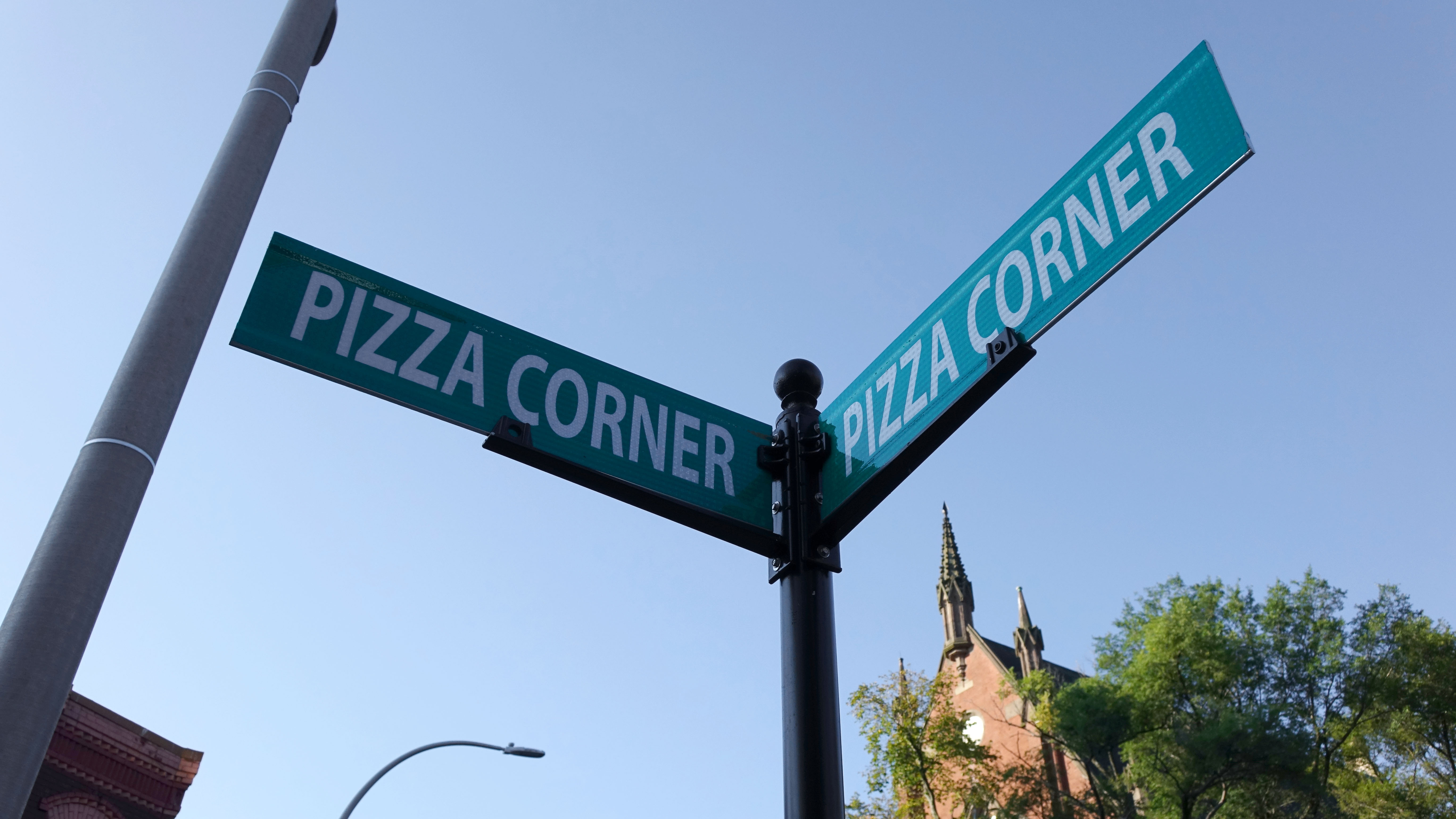 This photo taken on 15 September 2018 shows a private unsanctioned sign at the corner of Blowers Street and Grafton Street in downtown Halifax, Nova Scotia, Canada, to identify a local landmark called "Pizza Corner". The sign has been in place since around mid-August 2018. The steeple of Presbyterian Church of Saint David is visible in the background.